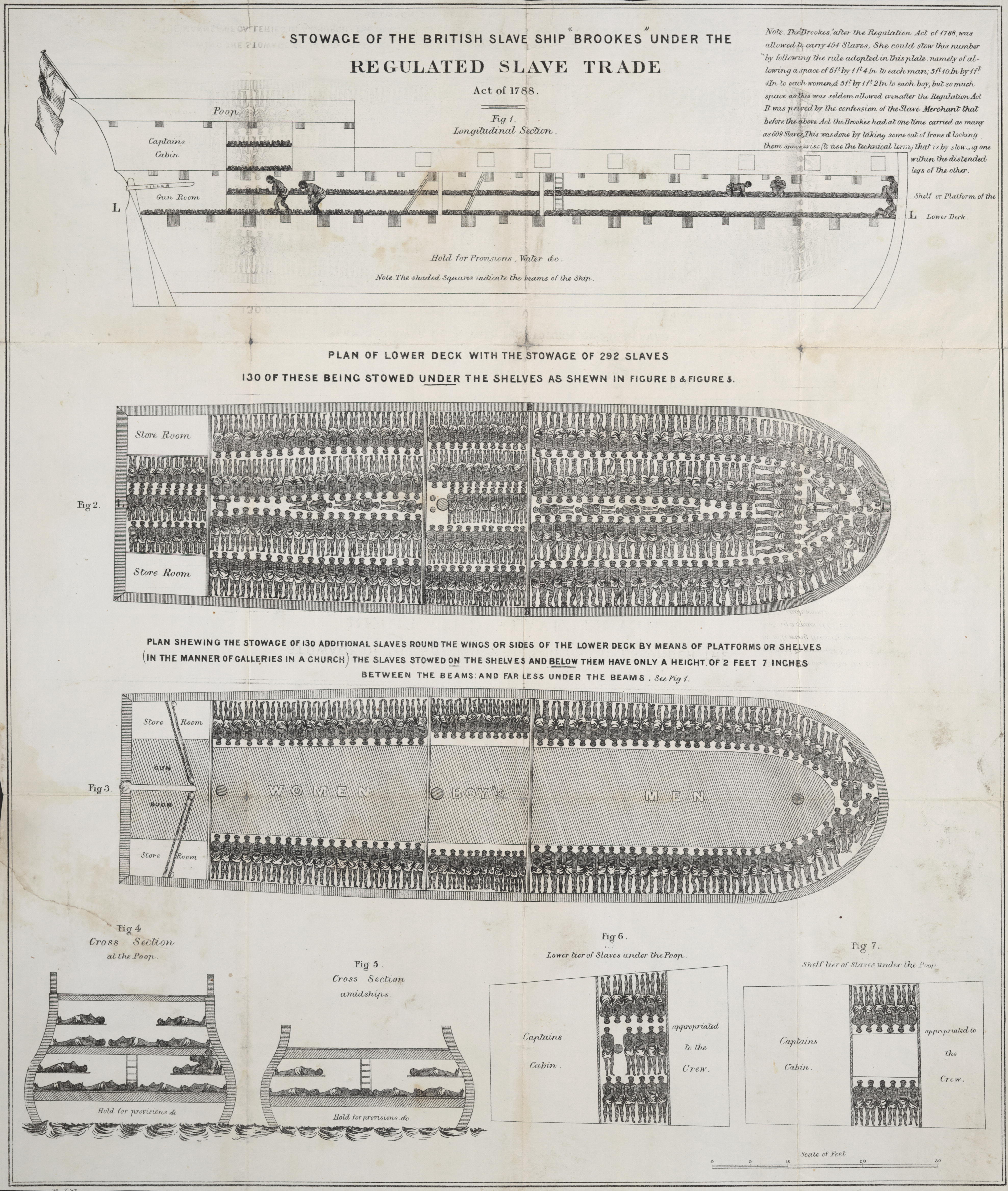 Stowage of the British slave ship Brookes under the regulated slave trade act of 1788.